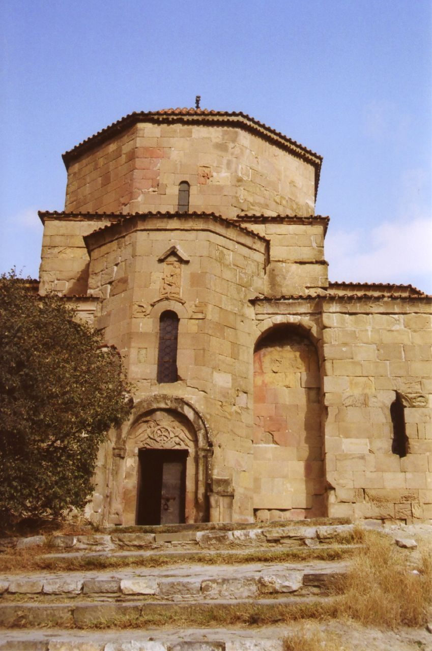 Jvari monastery